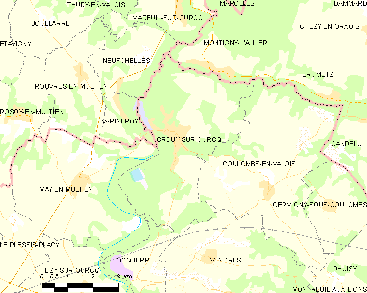 Map of French municipality Crouy-sur-Ourcq